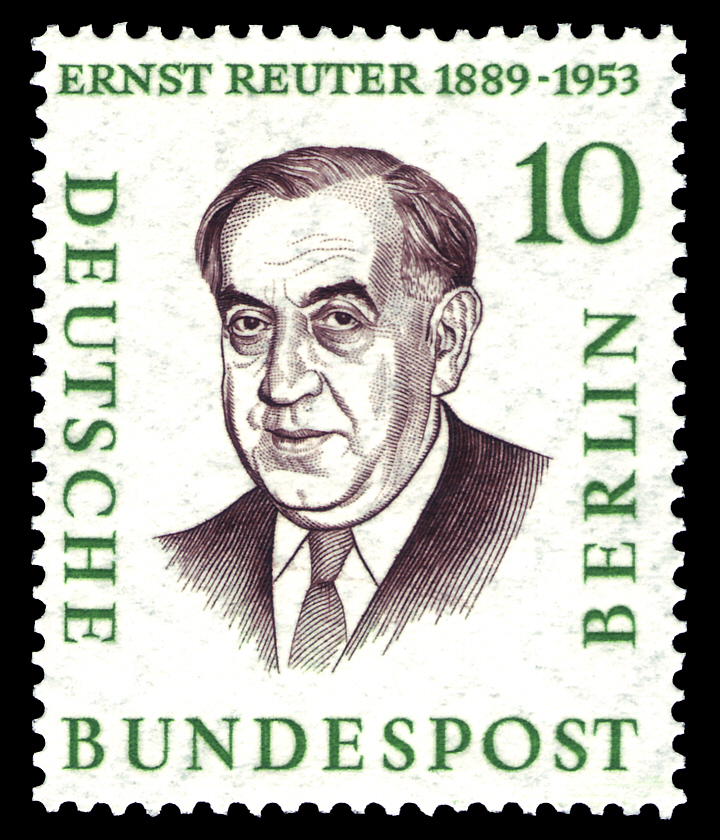 stamp series, men of the history of Berlin II, Ernst Reuter (1889-1953)